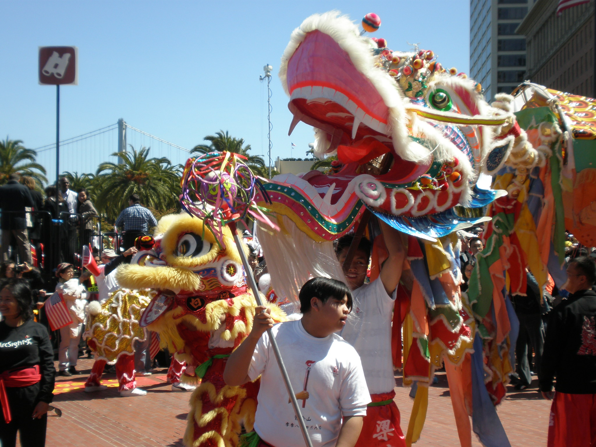 Members of the Buk Sing Choy Lay Fut Kung Fu Association from Fremont, California perform a dragon dance alongside lion dances in Justin Herman Plaza to welcome the torch's arrival. For an explanation and additional photos of my experience during the relay please see User:BrokenSphere/Gallery/San Francisco Bay Area/San Francisco/2008 Olympic Torch Relay.